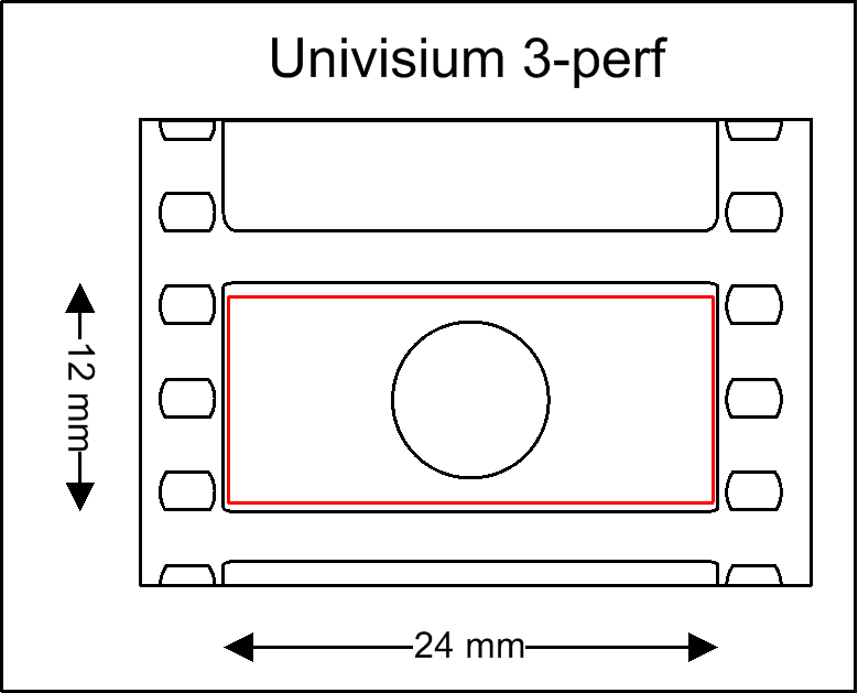 A frame from the Univision (film format). Drawn by myself (Max Smith) in Visio. Released to the PD, but a credit would be nice.